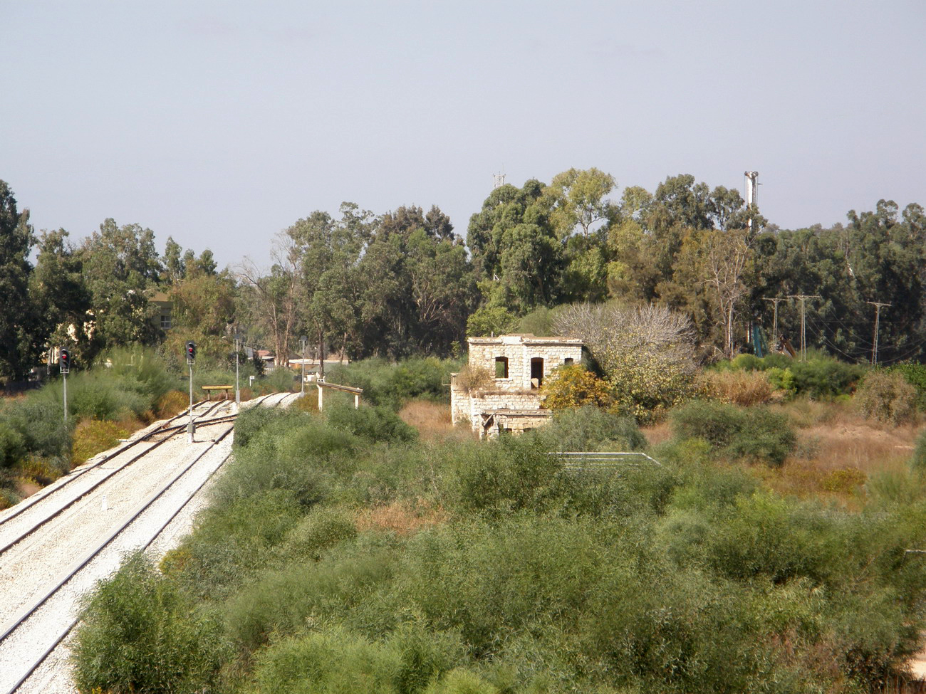 Nahal Sorek Railway Station remains, 2007. Power line edited out.